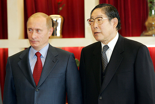 Vladimir Putin, President, talked Hiroshi Okuda, Chairman of Toyota Motor, at the Russian-Japanese Business Forum in Tōkyō Metropolis, on November 21, 2005.